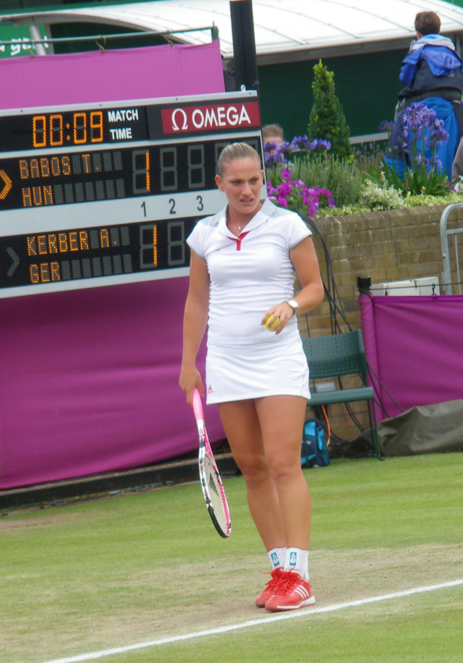 Tímea Babos, during her second round match of women's singles tennis, at the 2012 Summer Olympics in London.